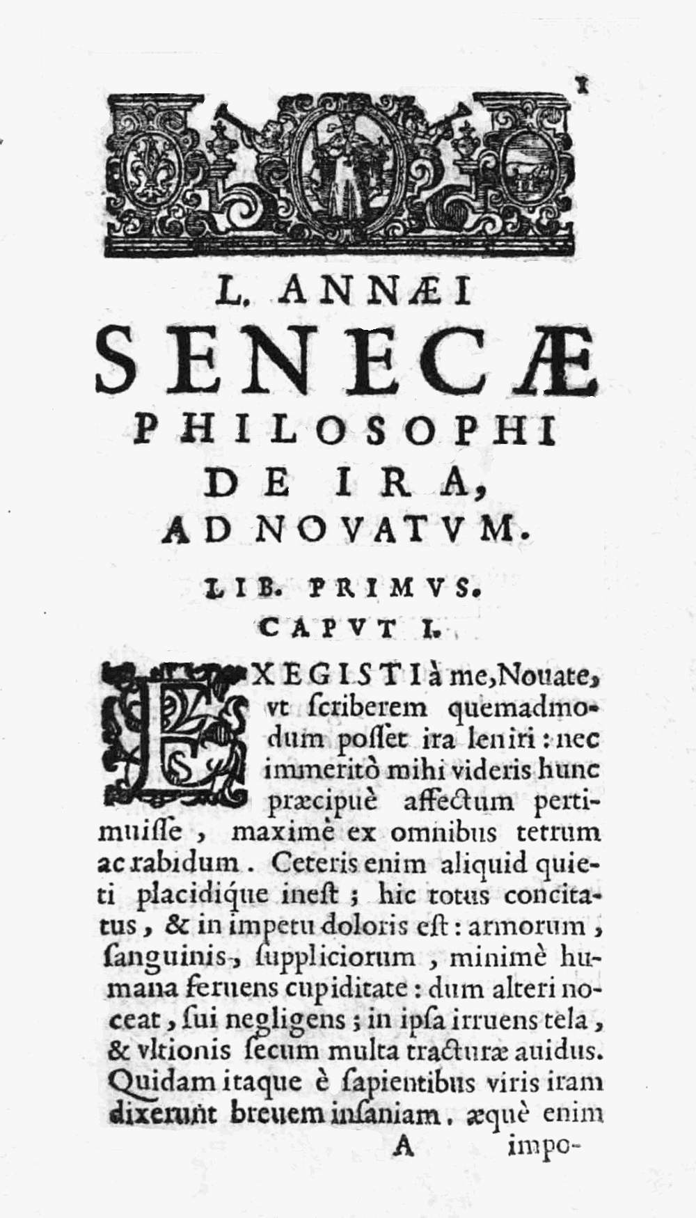 Page 1 of L. Annæi Senecæ philosophi Opera: tribus tomis distincta. Tomus 1. (1643). Published by Francesco Baba. (WorldCat)